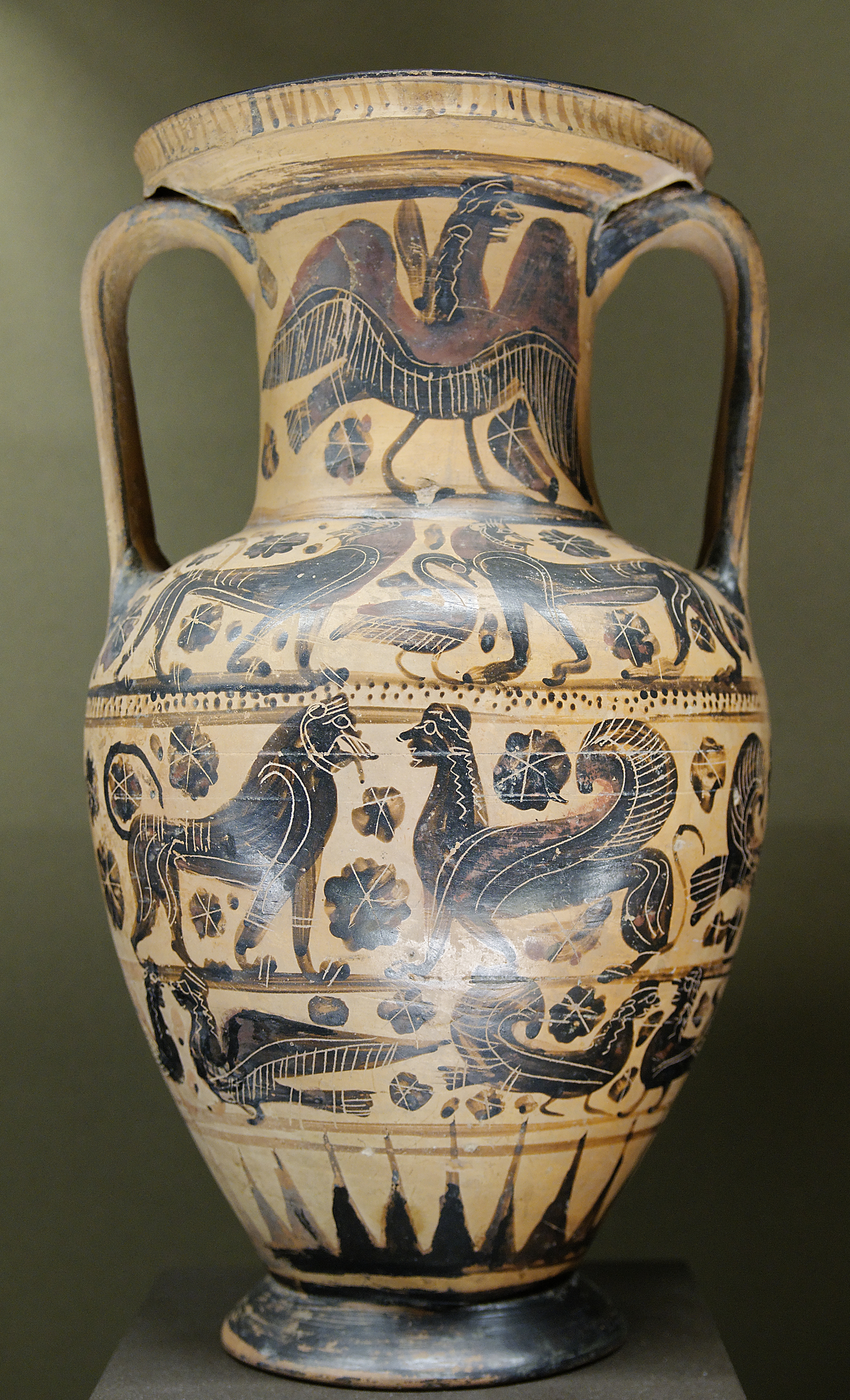 Neck: sphinxes (side A) and sirens (side B); belly: animals and sphinxes. Black-figure Attic amphora. From Athens.